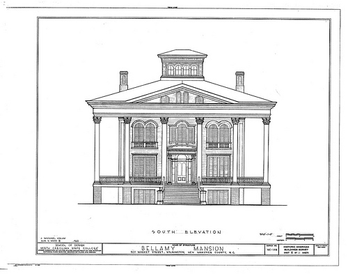 Drawing of the south elevation of the Bellamy Mansion, 503 Market Street, Wilmington, New Hanover County, North Carolina. Historic American Buildings Survey, Library of Congress, Washington, D. C. Retouched by MarmadukePercy